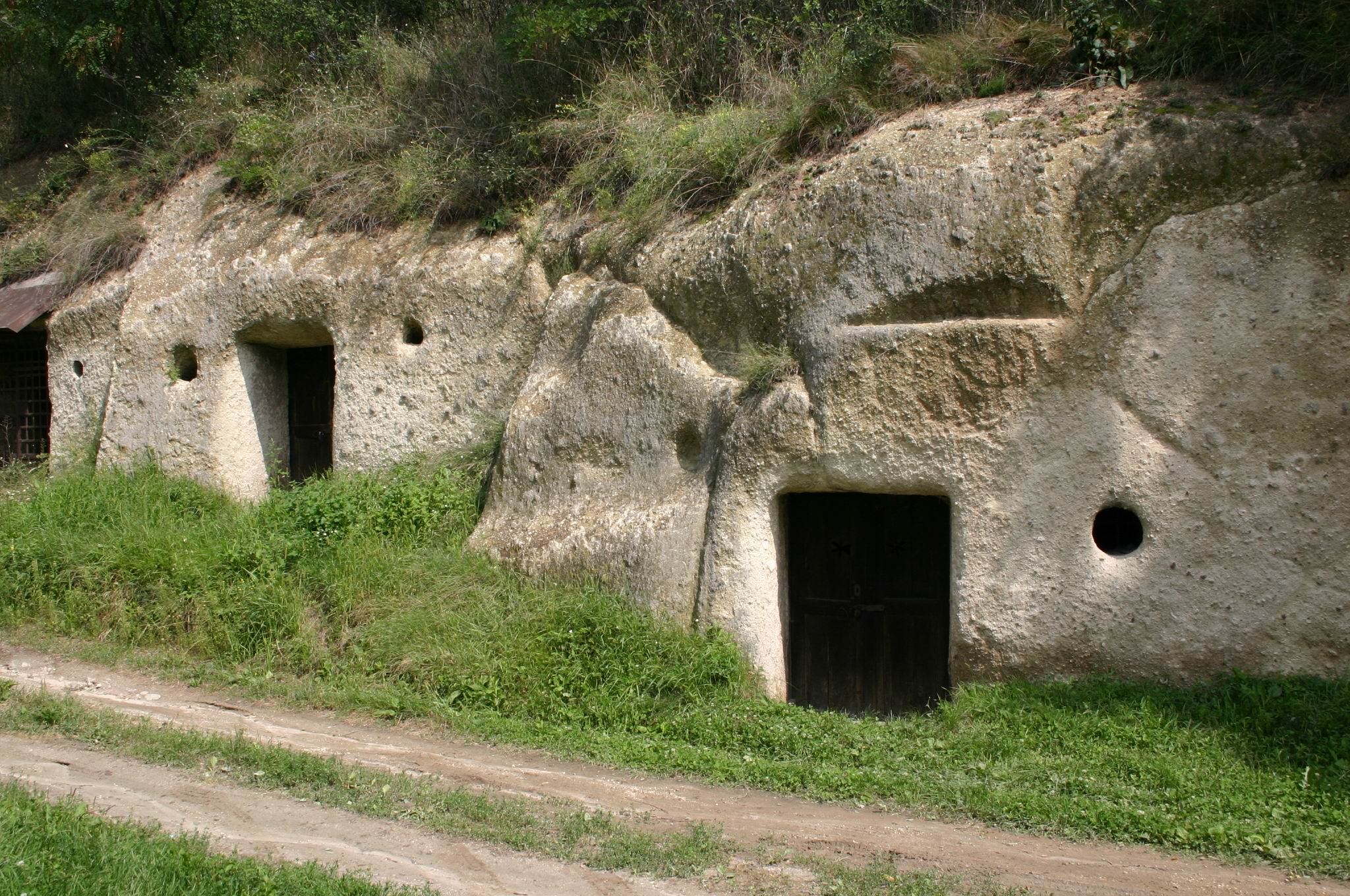 Wine cellars in Bükkzsérc, Hungary